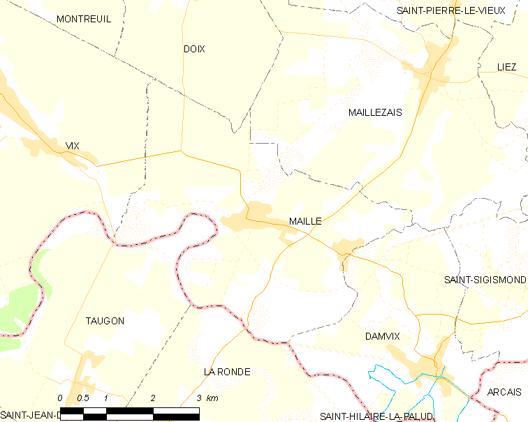 Map of French municipality Maillé